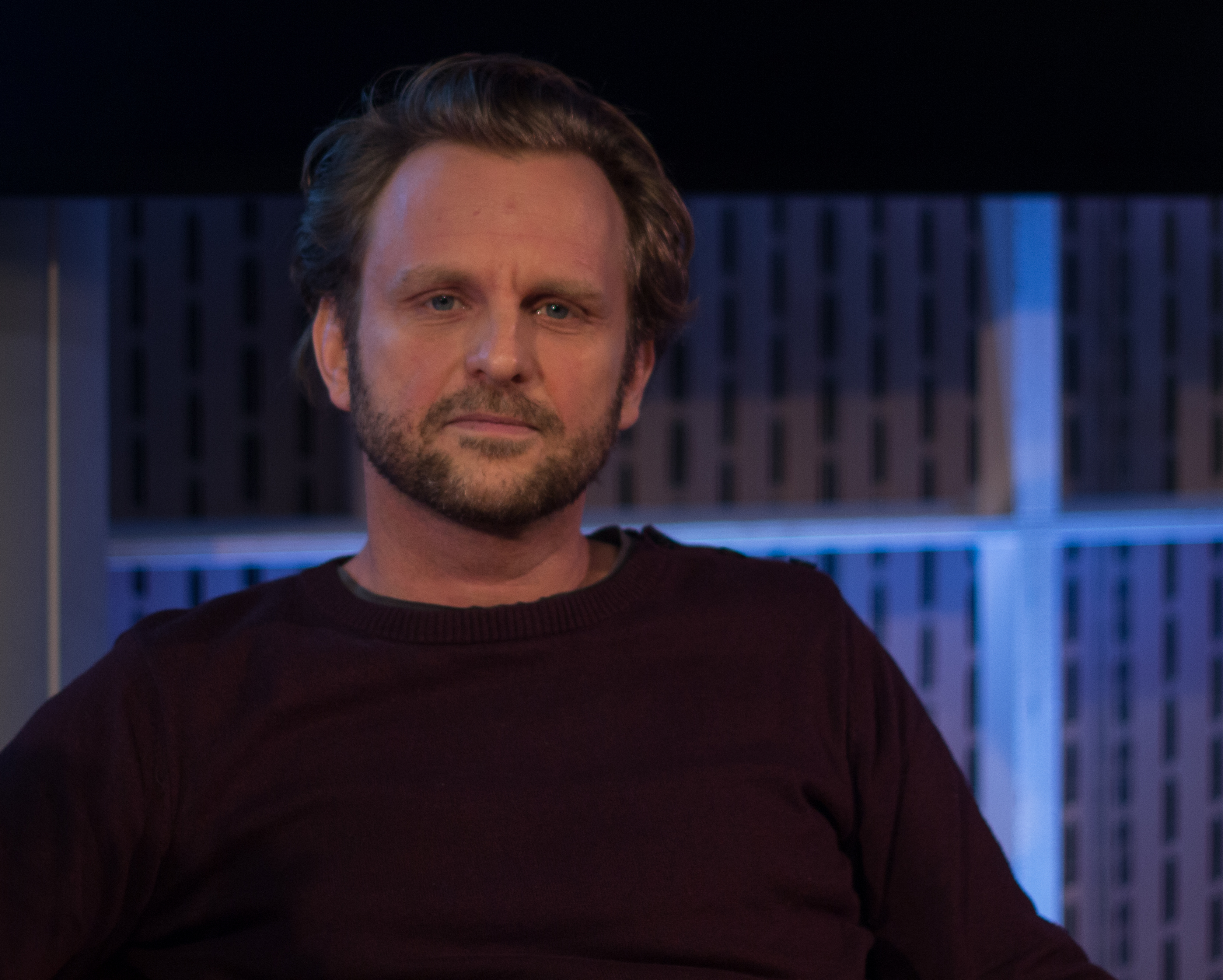 Ingo Haeb at the IFFR